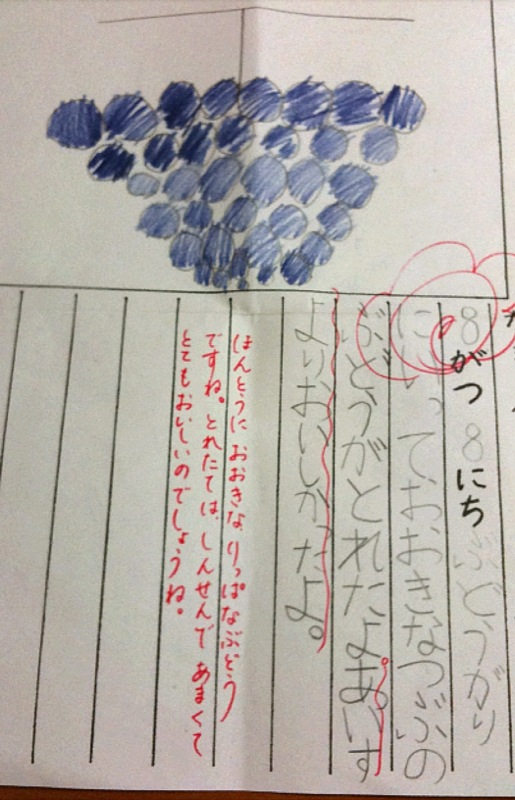 A homework diary of a Japanese elementary school student.